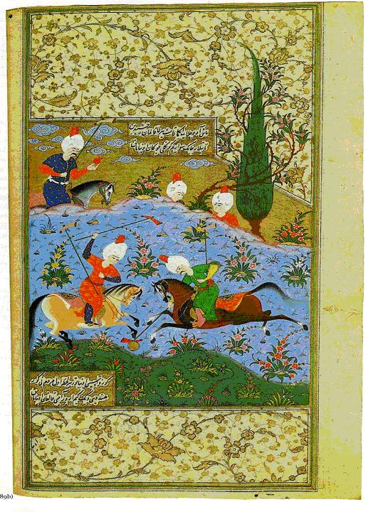 Suleyman the Magnificent's library